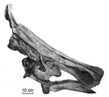 Olorotitan arharensis Godefroit, Bolotsky & Alifanov, 2003. Main part of the skull of the holotype AEHM 2-845 in right lateral view. Late Maastrichtian (Upper Cretaceous) of Kundur, Russia.